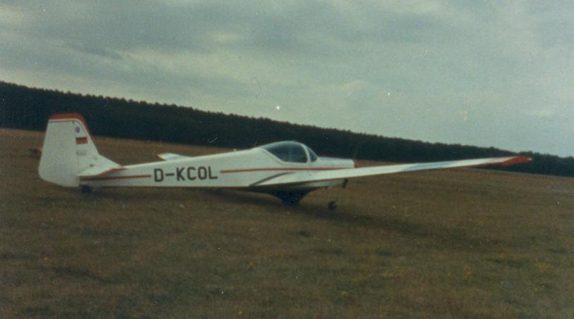 Avo 68, picture taken 1985 at Babenhausen Airfield, Germany (EDEF).